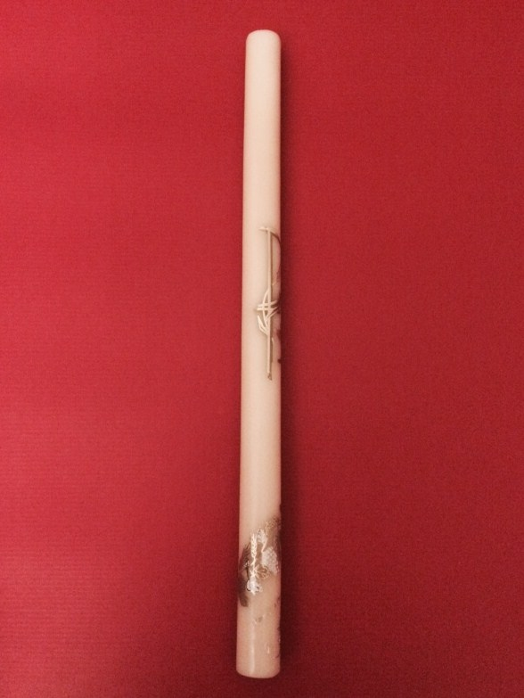 blessed candle